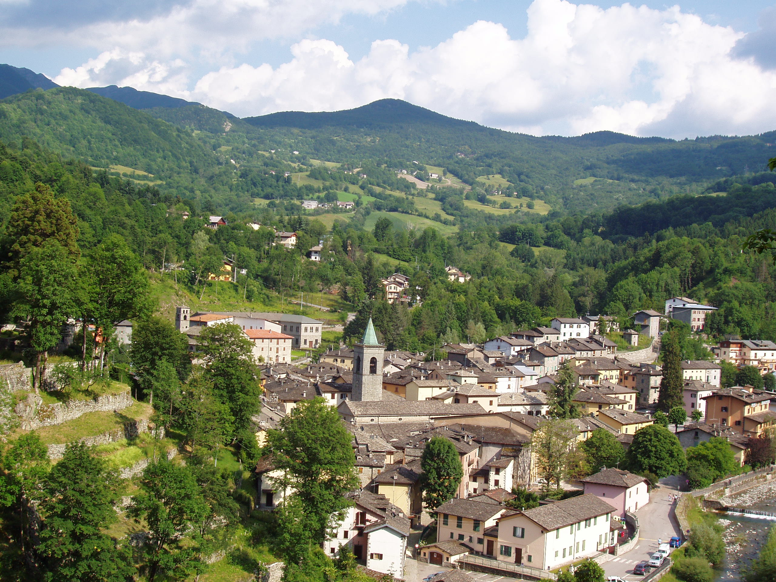 Cityscape of Fiumalbo as seen from il Costolo.